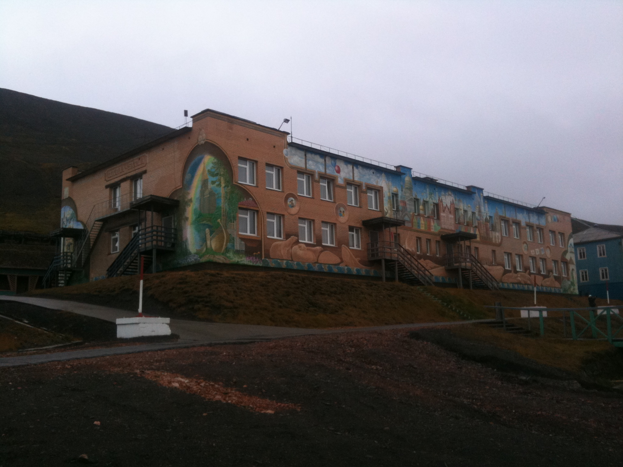 Barentsburg elementary school, Spitsbergen